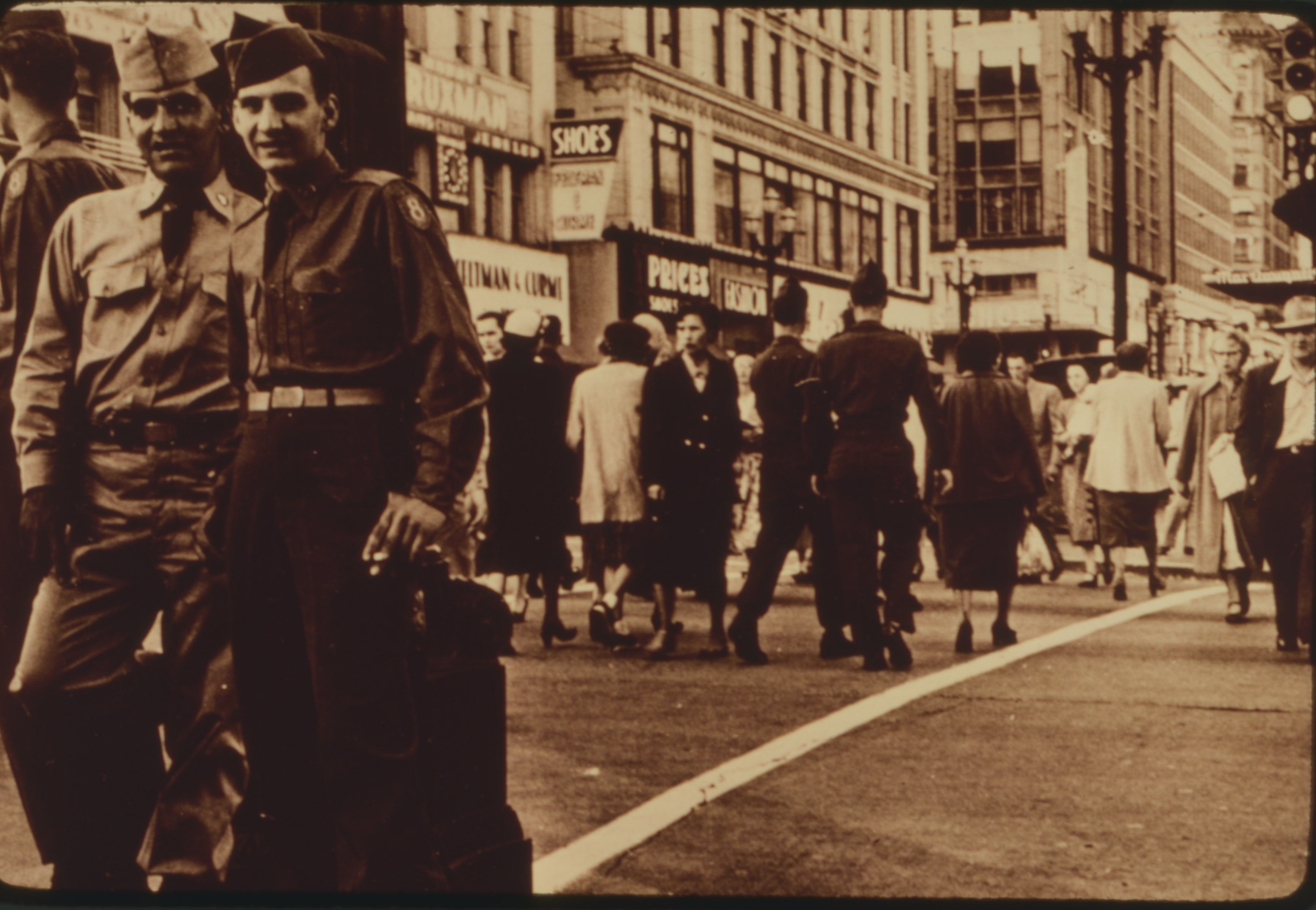 Item 37887, Pike Place Market Visual Images and Audiotapes (Record Series 1628-02), Seattle Municipal Archives.